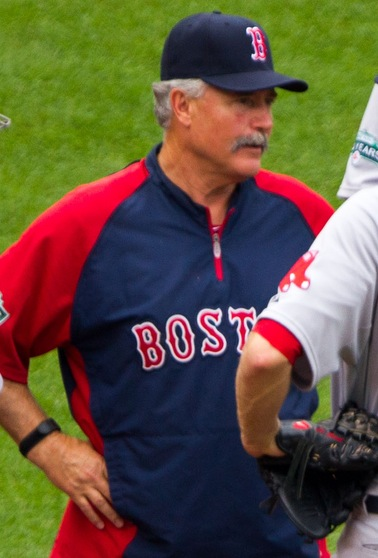 Boston Red Sox pitching coach Bob McClure - Red Sox at Orioles May 23, 2012